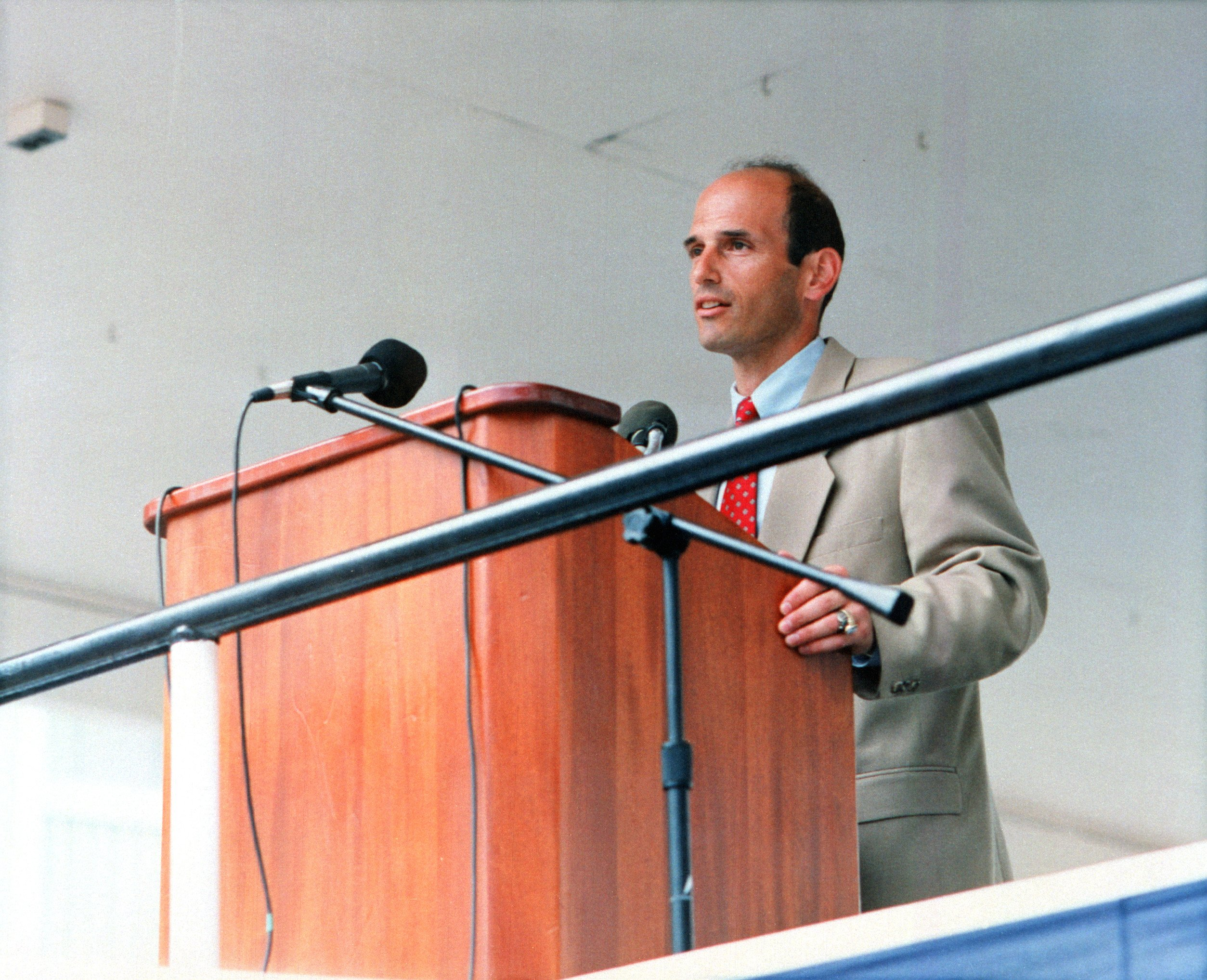 "John Baldacci, US Representative, Maine, addresses the gathered crowd a the christening and launch ceremony for the guided missile USS The Sullivans (DDG-68). Congressman Baldacci was the principal speaker."